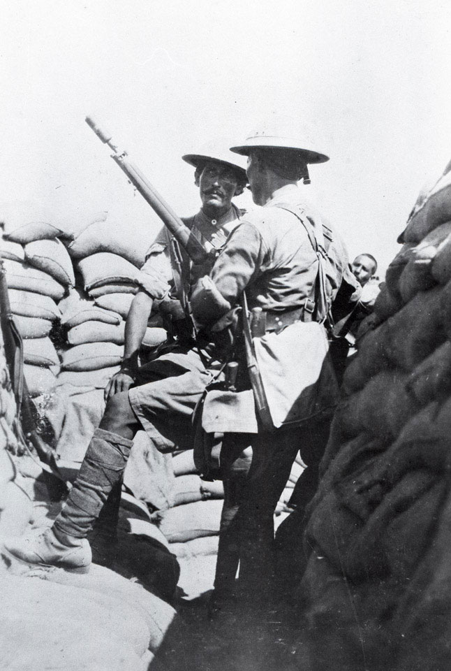 Indian soldiers of the 7th (Meerut) Division man trenches in Mesopotamia. One of the sepoys is armed with a rifle grenade. Using a rifle as a launch mechanism greatly increased the effective range of the grenade. The Meerut Division had landed at Basra on 31 December 1915 and went on to join the attempt to relieve the besieged garrison at Kut al Amara before moving to Palestine in January 1918.